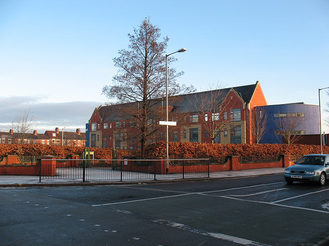 Endeavour School, Hull - front